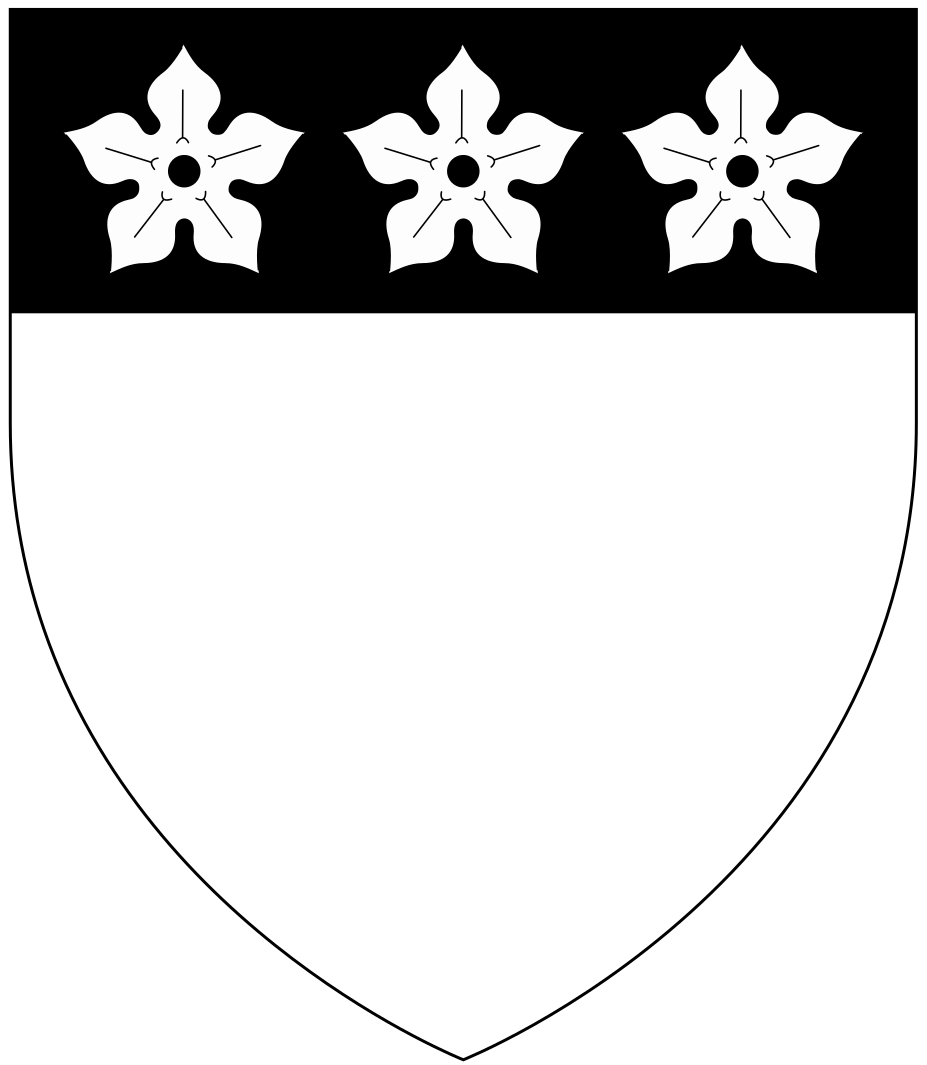 Arms of Bellot of Downton in Devon and of Bochym, Cornwall: Argent, on a chief sable three cinquefoils of the field (Vivian, Lt.Col. J.L., (Ed.) The Visitations of the County of Devon: Comprising the Heralds' Visitations of 1531, 1564 & 1620, Exeter, 1895, p.71). Of this family was Ambrose Bellott (c. 1561–1637) MP for East Looe, Cornwall, in 1597